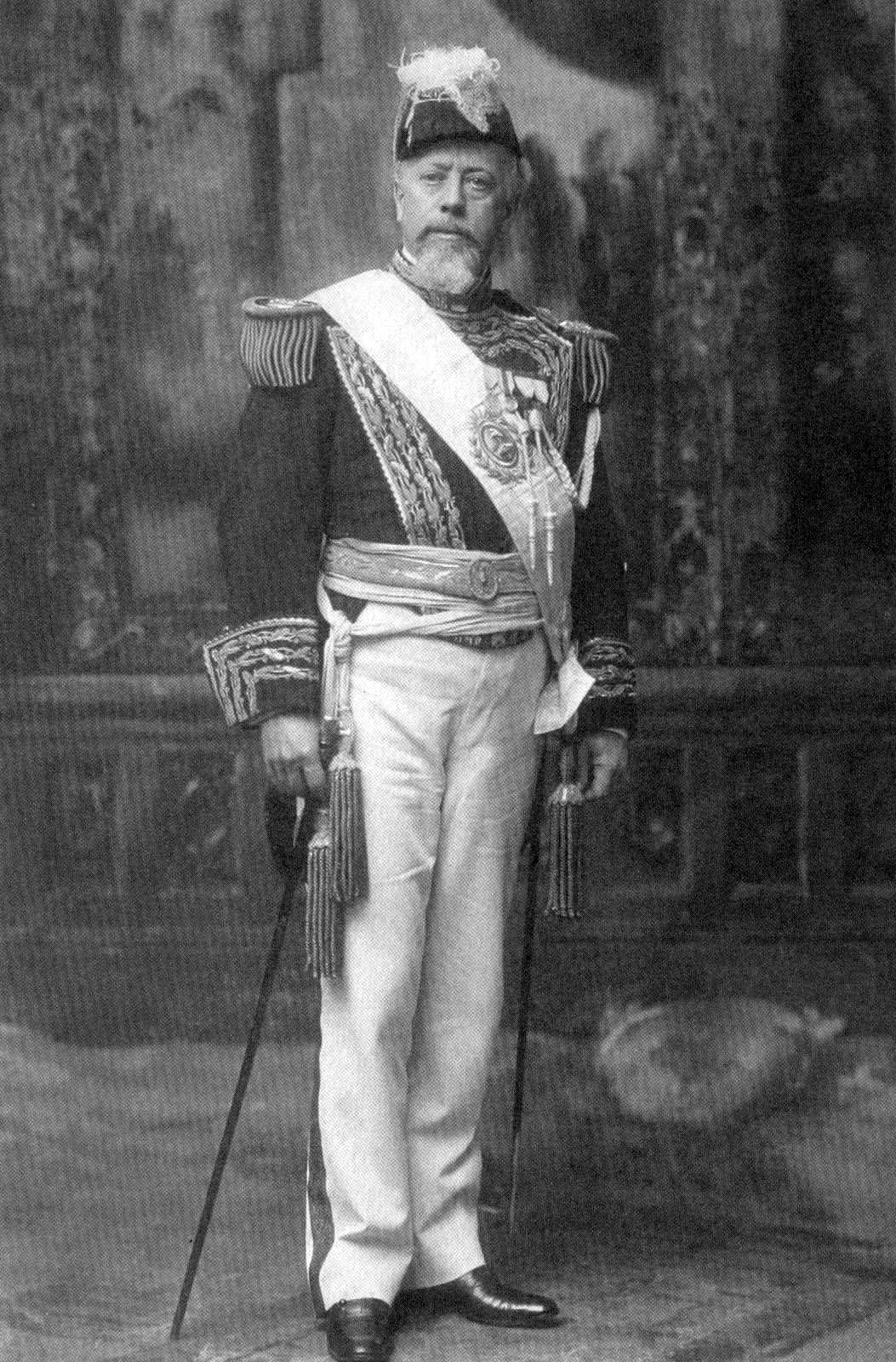 Portrait of former president of Argentina, General Julio Argentino Roca.